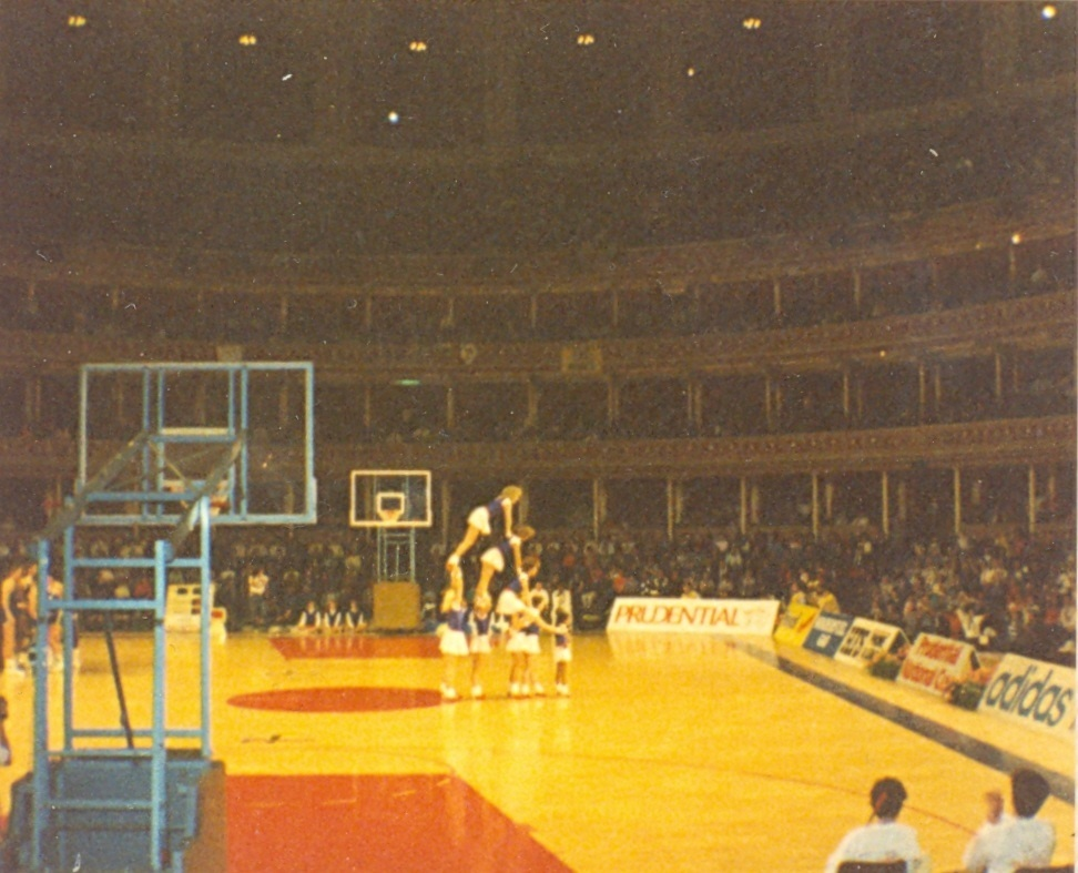 Portsmouth FC Basketball Club v Kingston Kings, National Cup final, Royal Albert Hall, London, December 15th 1986. Portsmouth's cheerleaders form a pyramid during a time-out.